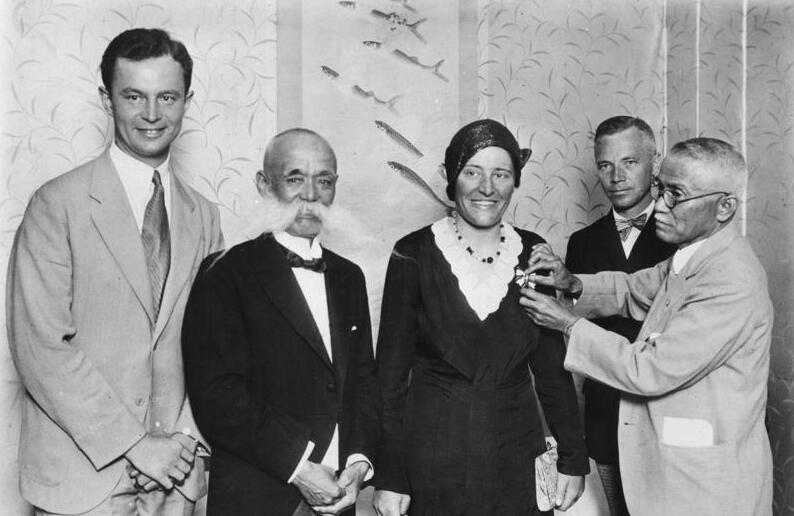 Tokio, Marga von Etzdorf, Ordensverleihung GERMAN AVIATRIX COMPLETES BERLIN-TOKYO FLIGTH. Fraulein Marga von Etzdorff, German aviatrix who recently completed a fligth from Berlin to Tokyo, Japan, is seen as she was awarded the Red Insignia of Merit in the Aviation Hall in Tokyo, by the Imperial Aeronautic Society of Japan. Left to Right: Herr Etzdorff of the German ambassy in Japan, uncle of the aviatrix; Lt. General Gaishi Nagaoka, patron of the Japanese civil aviation, Miss Etzdorff; the German Charge d'affairs in Tokyo; and Mr. Keizaburo Hasimoto. Credit line (ACME) 9/19/31 [Japan, Tokio.- Marga von Etzdorf bei der Verleihung eines Ordens. vlnr.: Hasso von Etzdorf (Onkel von Marga von Etzdorf), General Gaishi Nagaoka, Marga von Etzdorf, der Deutsche Geschäftsträger in Tokio, Keizaburo Hasimoto [Porträtausschnitt Marga v. E] Abgebildete Personen: Etzdorf, Marga von: 1907-1933; Kunstfliegerin, Deutschland (GND 12355800X) Etzdorf, Hasso von Dr.: 1900-1989; Diplomat, Bundesrepublik Deutschland (GND 119178311) Nagaoka, Gaishi: 1856-1933; General, Japan